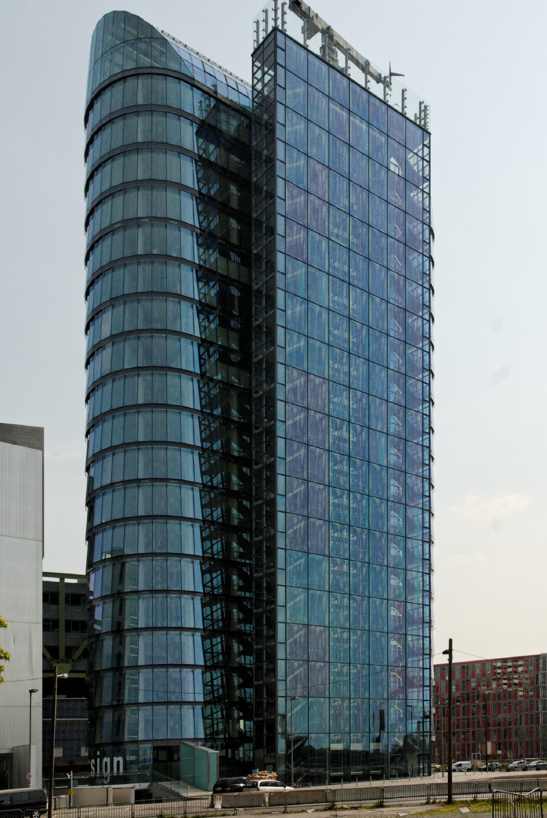 SIGN!, Speditionstraße 1 to 3 in Düsseldorf-Hafen, Germany